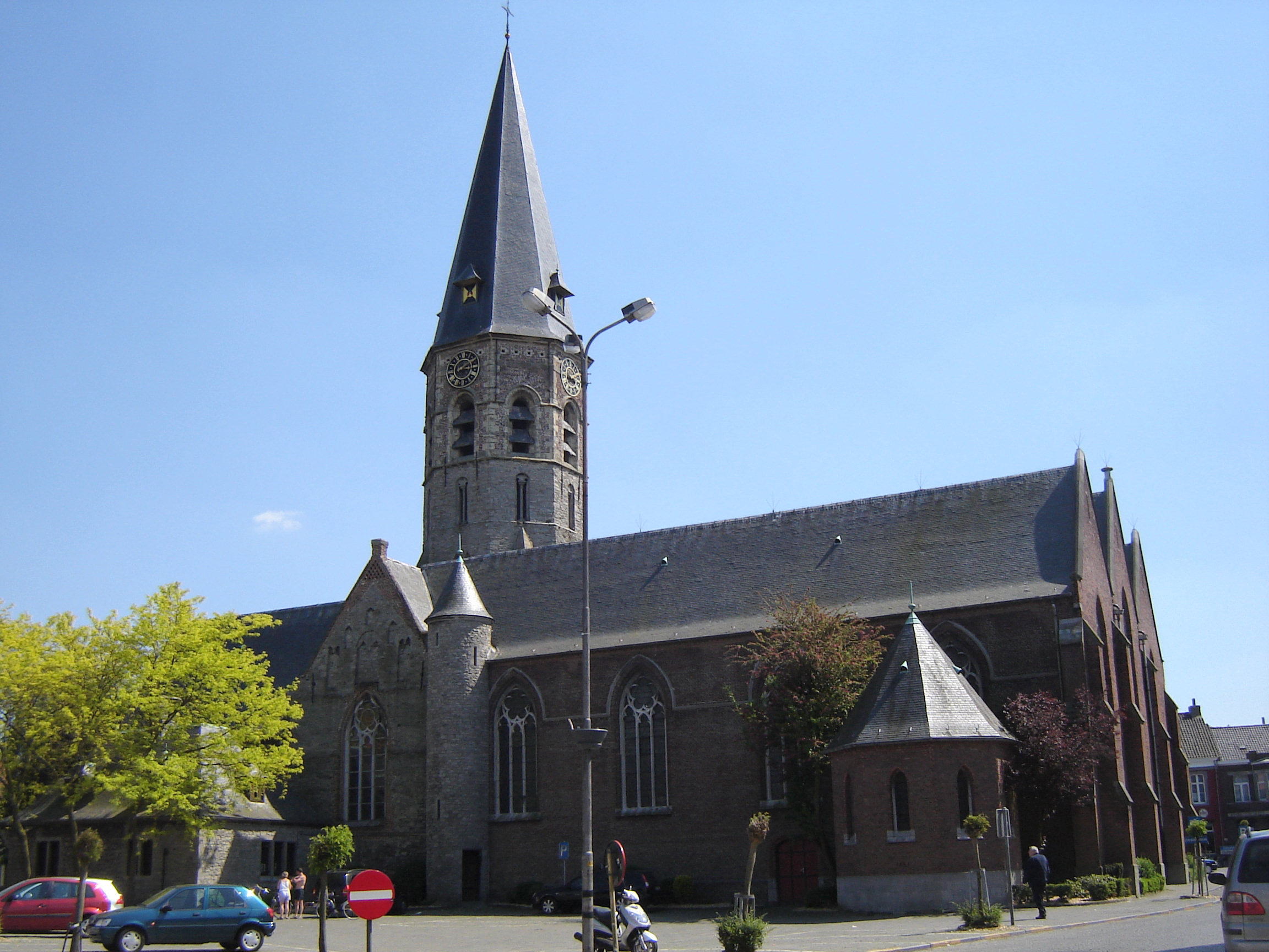 Sint-Petrus en Martinuskerk in Assenede. Assenede, East Flanders, Belgium